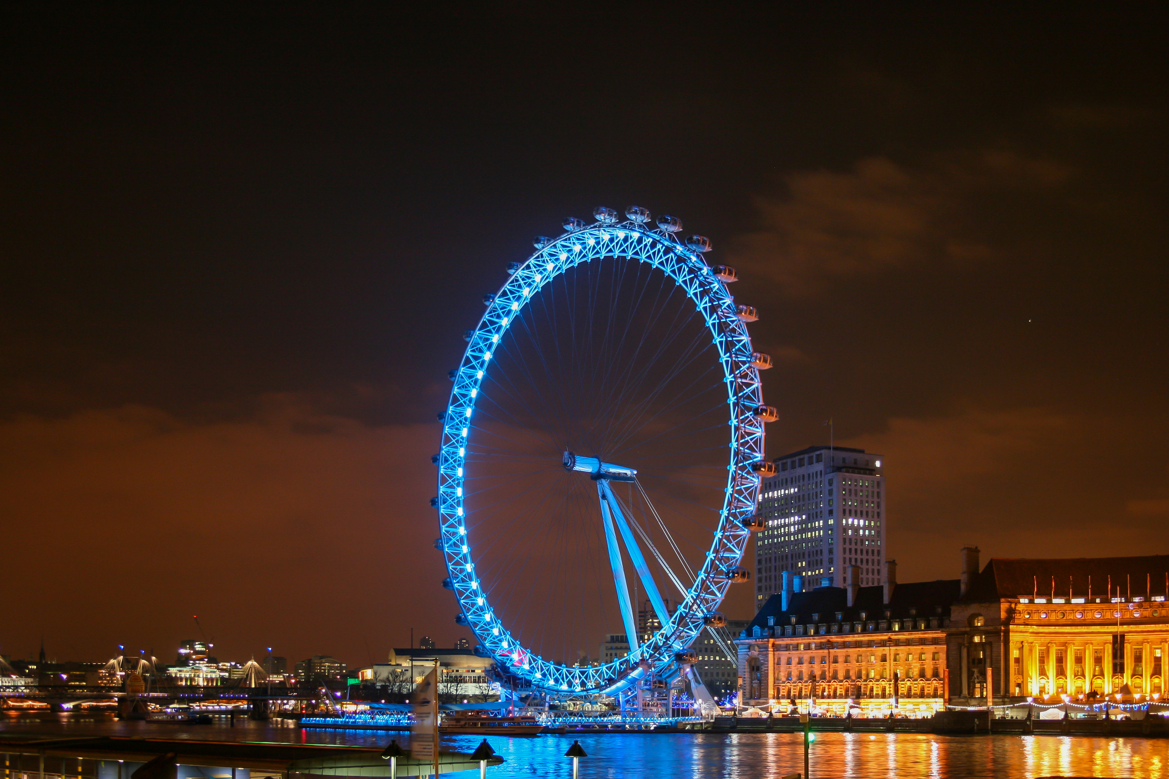 The London Eye in London, England.